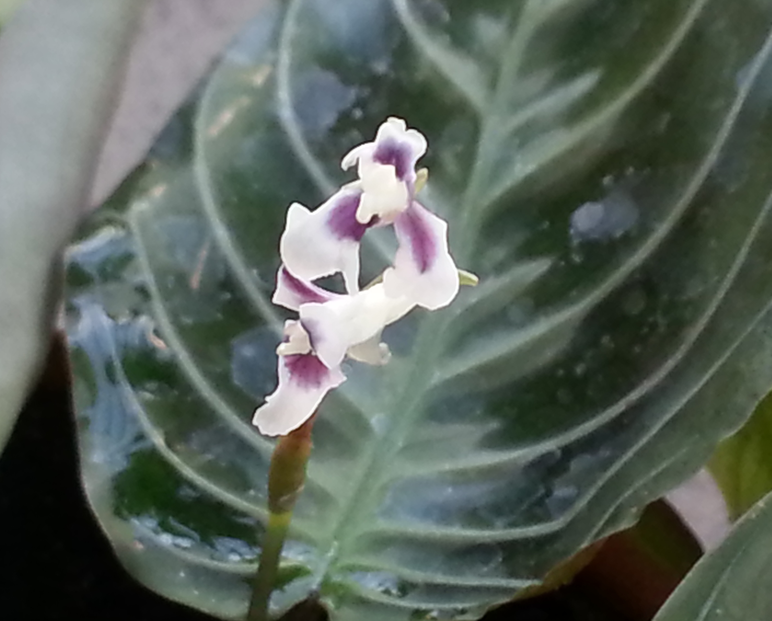 Calathea - flower.